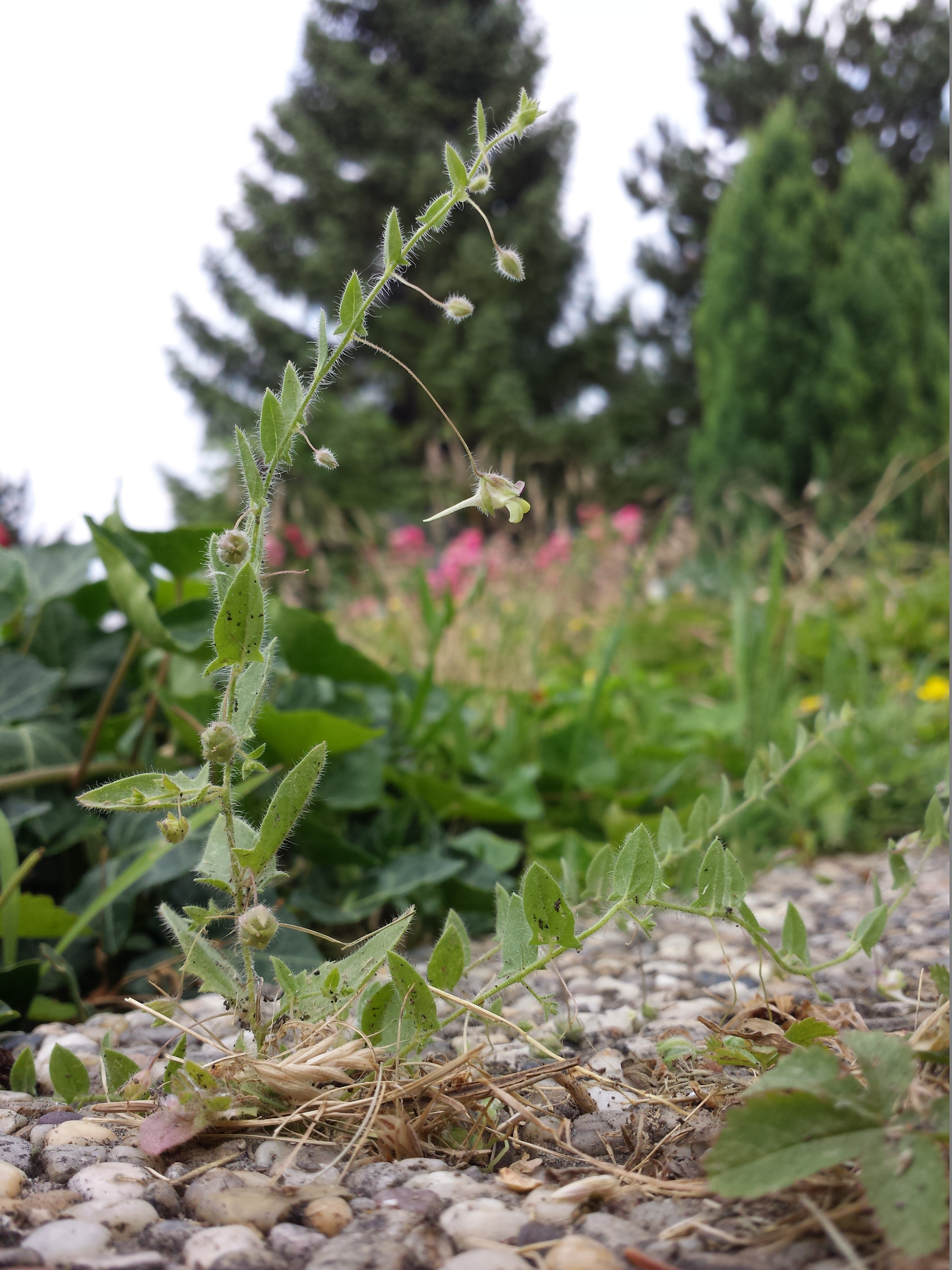 Habitus Taxonym: Kickxia elatine ss Fischer et al. EfÖLS 2008 ISBN 978-3-85474-187-9 Location: Groß-Jedlersdorf cemetery, Vienna-Floridsdorf - ca. 160 m a.s.l. Habitat: gap in surface